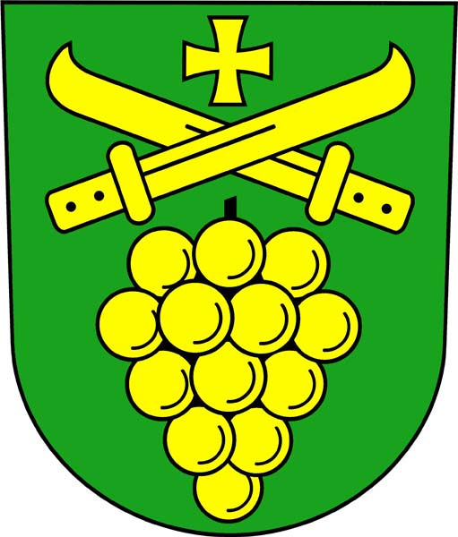 Municipal coat of arms of Sobotovice village, Brno-Country District, Czech Republic.